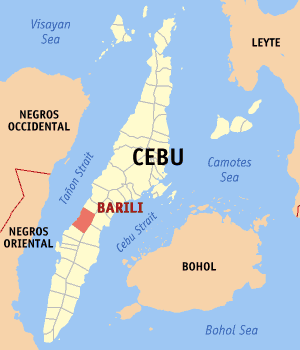 Map of Cebu showing the location of Barili